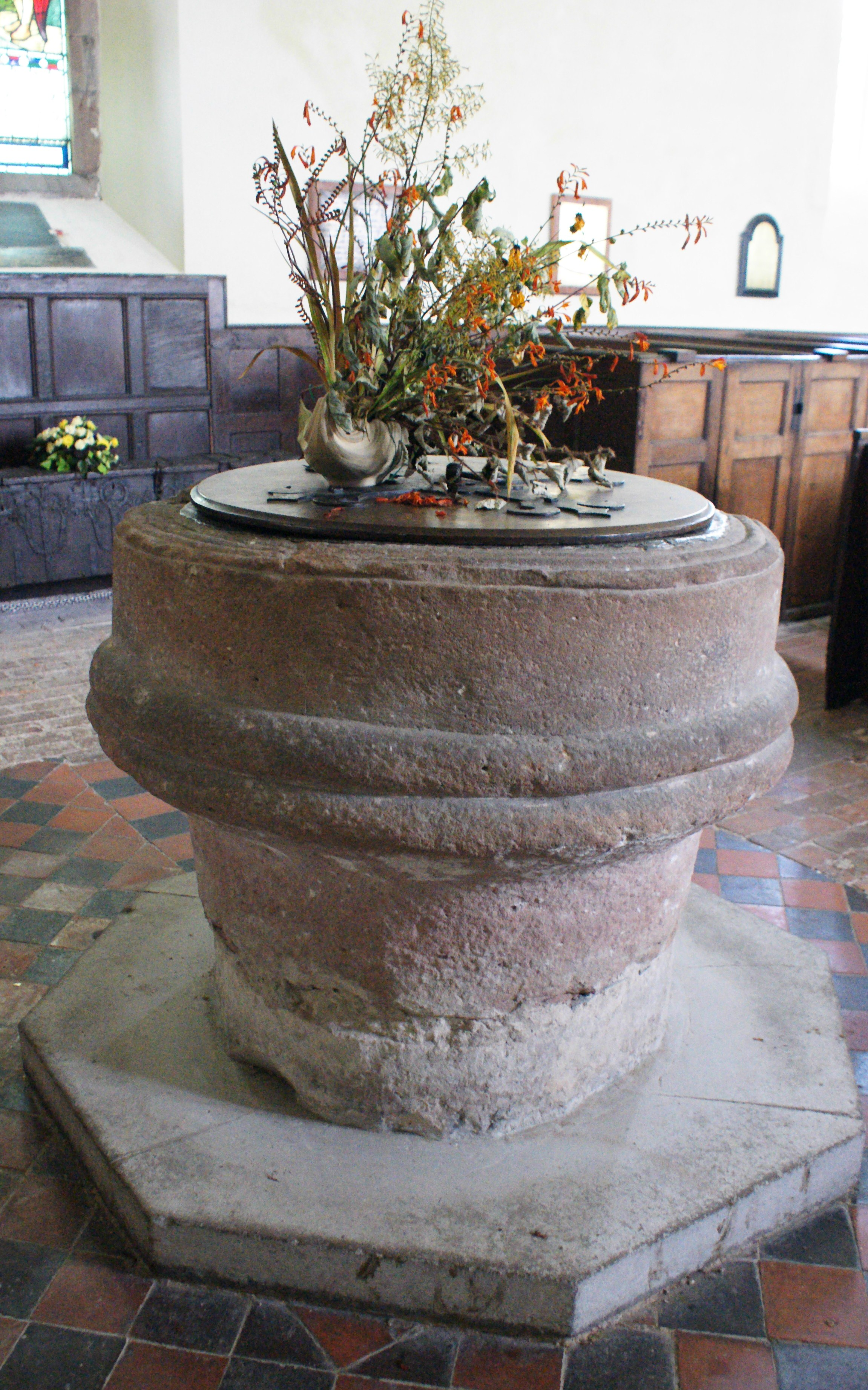 Originally part of a Roman column, from the Roman camp at Virconium.